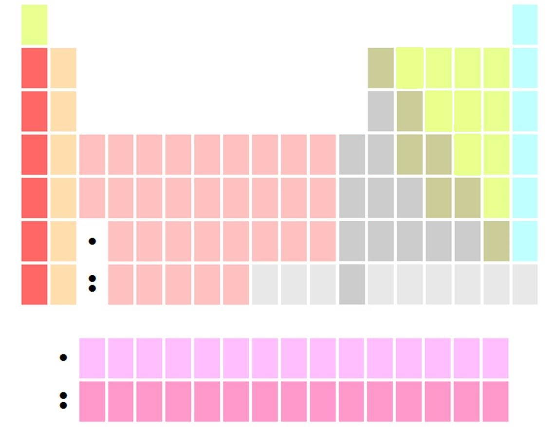 Periodic table with group 3 being undefined. Color scheme for categories following enwiki as of today.